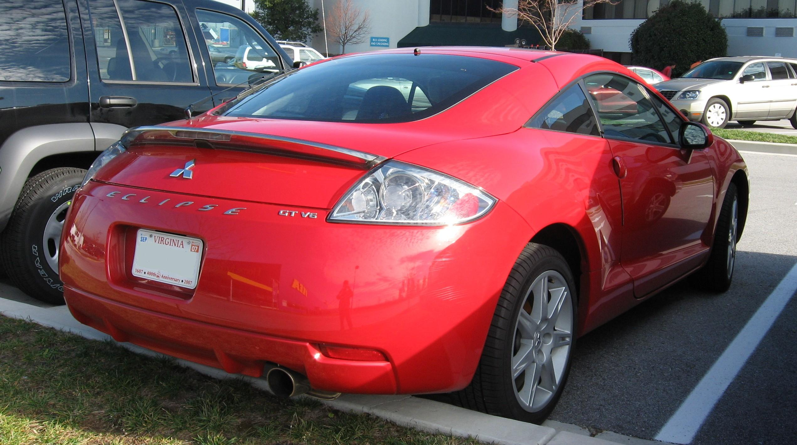 2006 Mitsubishi Eclipse photographed in USA.